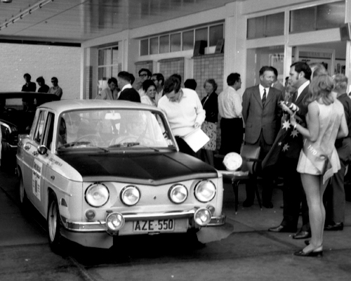 The Renault R8 Gordini of 1970 Australian Rally Champions Bob Watson and Jim McCauliffe at the start of the 1970 Warana Rally - Photo by Graham Ruckert